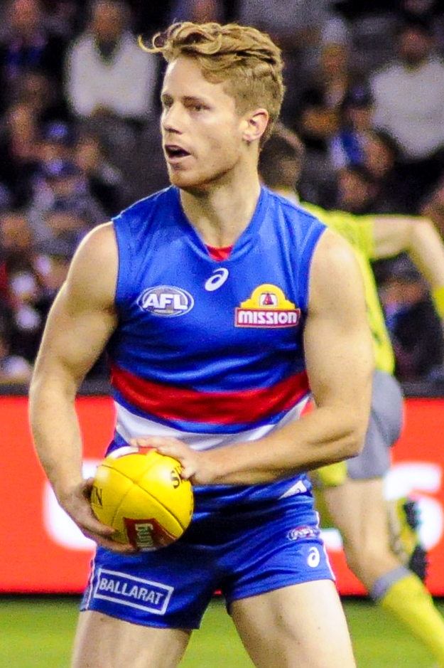 Lachie Hunter during the AFL round thirteen match between the Western Bulldogs and Melbourne on 18 June 2017 at Etihad Stadium in Melbourne, Victoria.